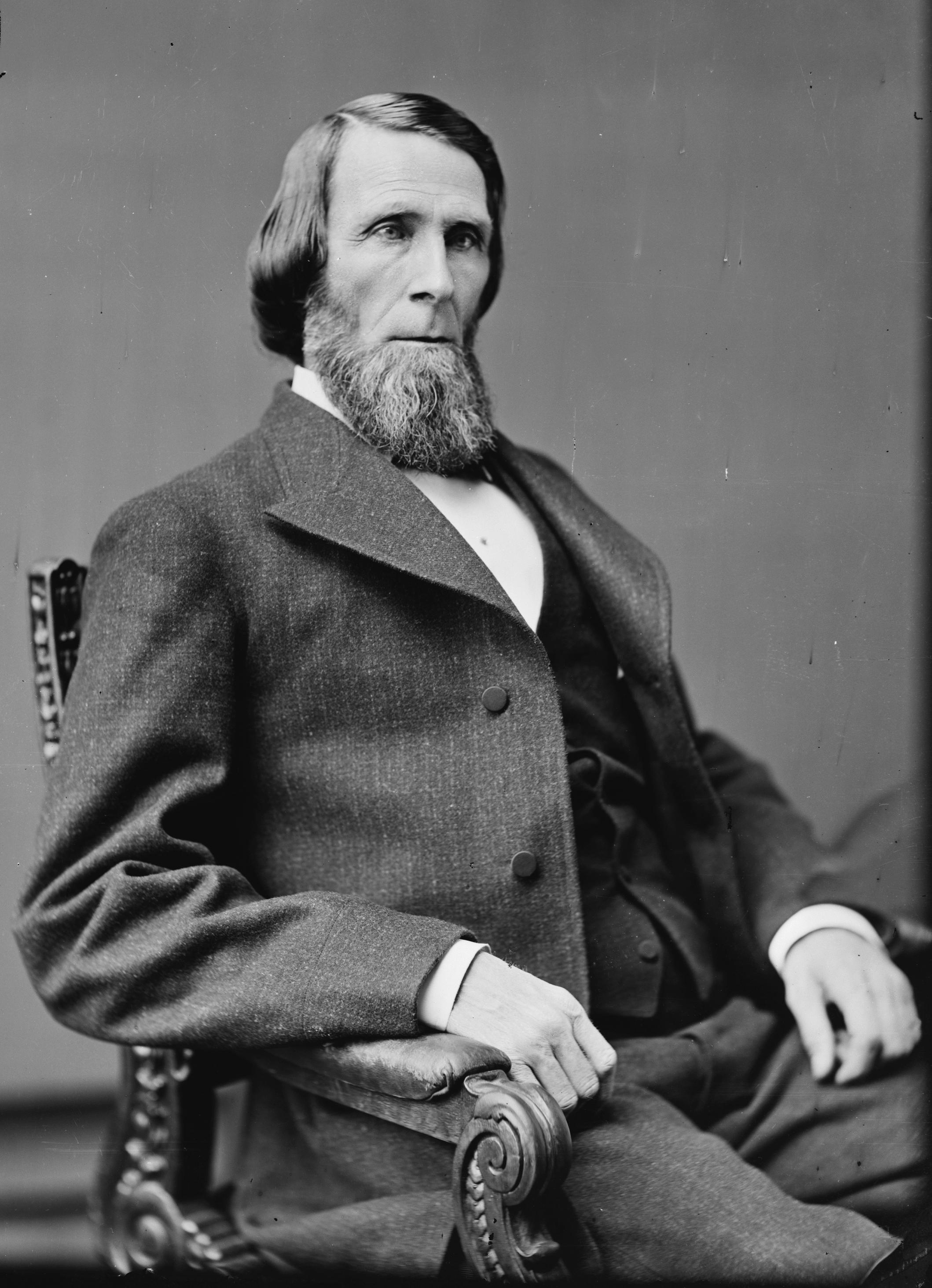 Samuel B. Maxey. Library of Congress description: "Maxey, Hon. Samuel Bell of Texas Col. of 9th Texas Inf., C.S.A. General in 1862 Commanded the Indian Territory Military District 1863-65".